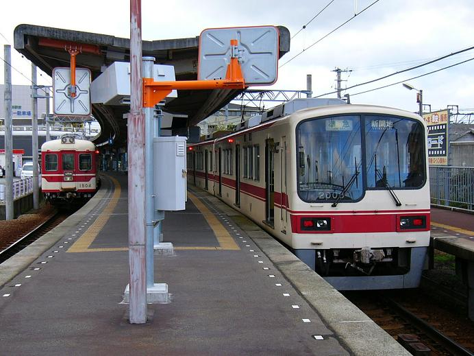 Kobe Electric Railway 2000 series EMU at Sanda Staion